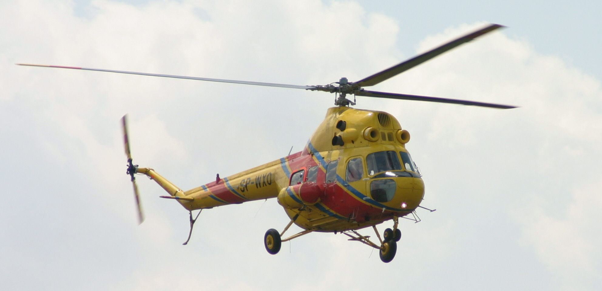 Mi-2 Plus from Lotniczego Pogotowia Ratunkowego (air rescue)